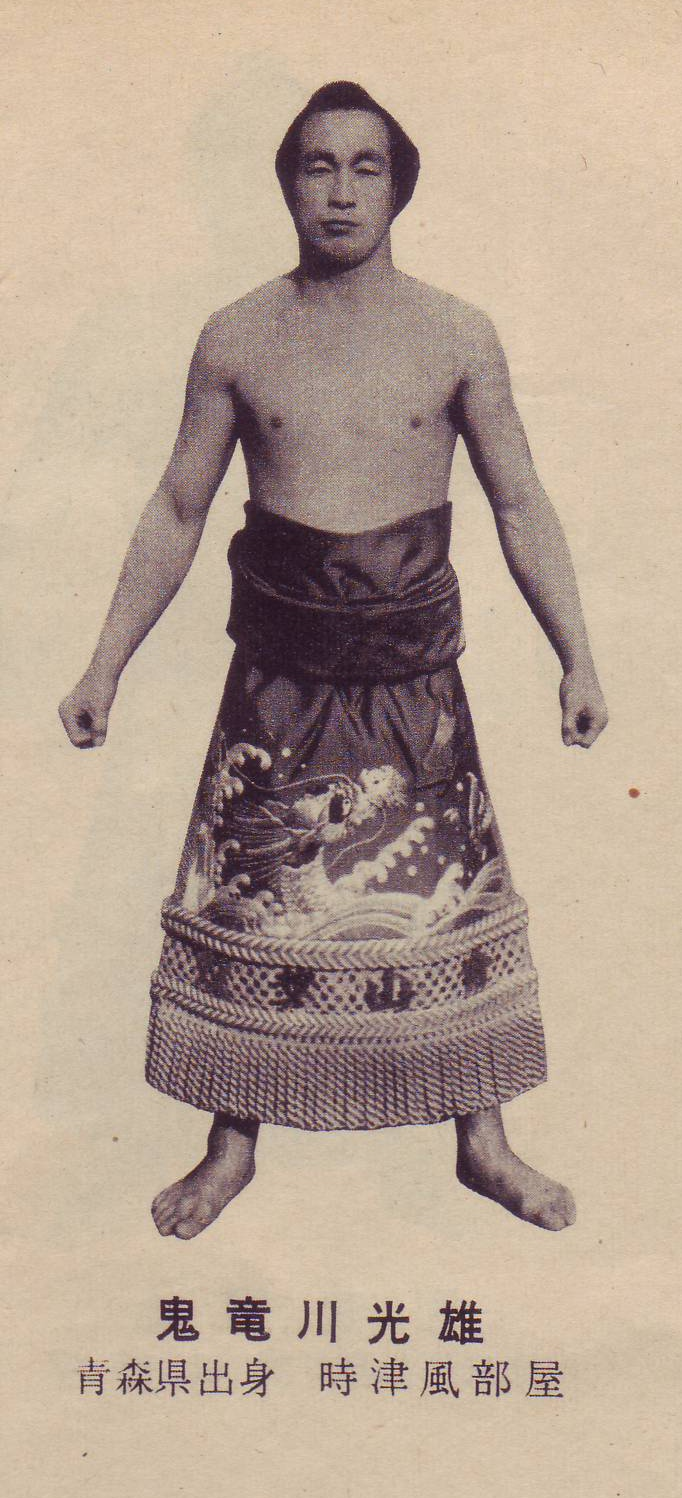 Kiryugawa Mitsuo (Sumo wrestler from Japan). taken in 1958, or before that.